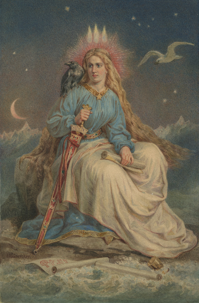 Fjallkona, female personification of Iceland, The Lady of the Mountain.